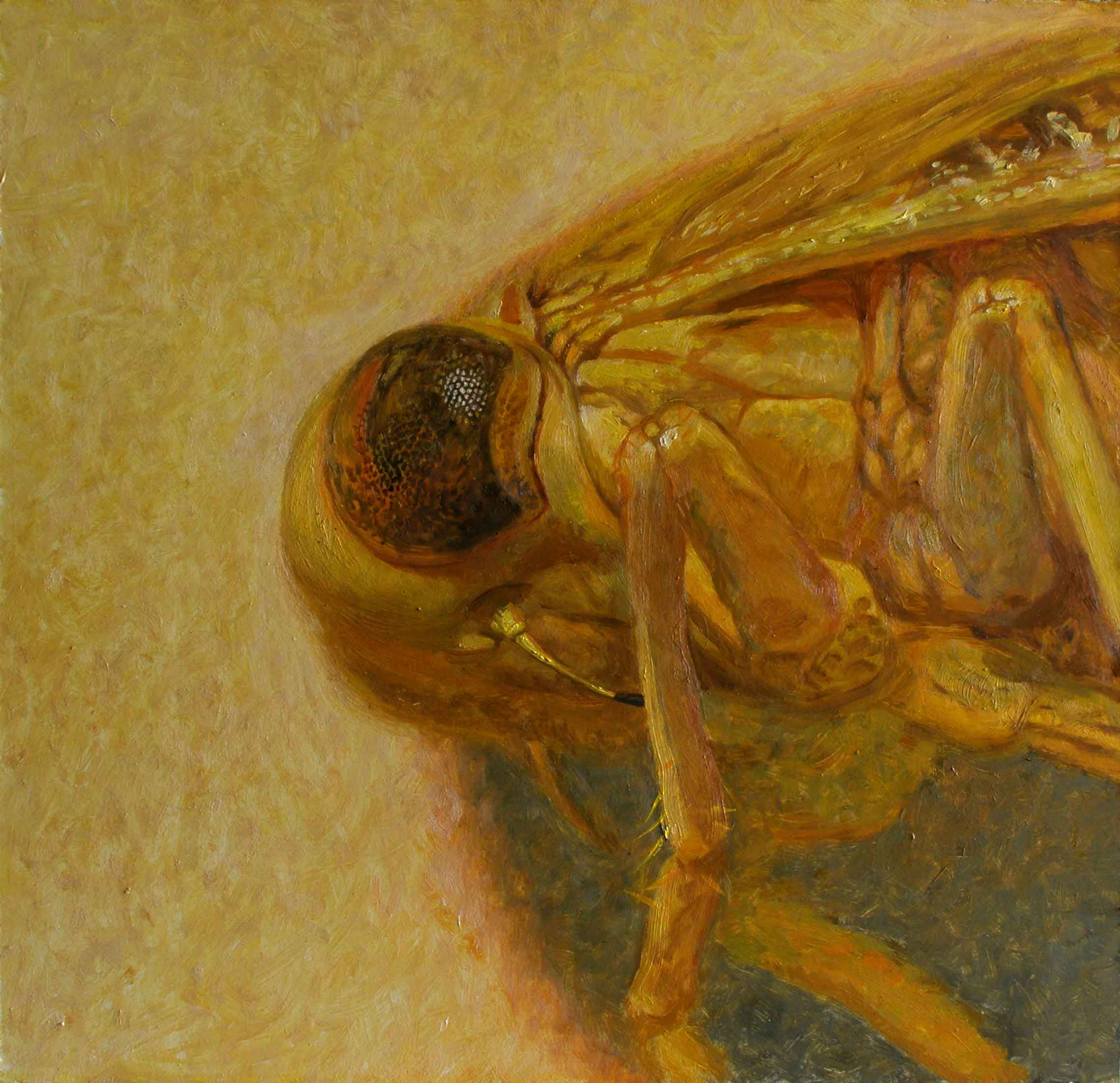 Жанр "микро" (работа с использованием микроскопа)